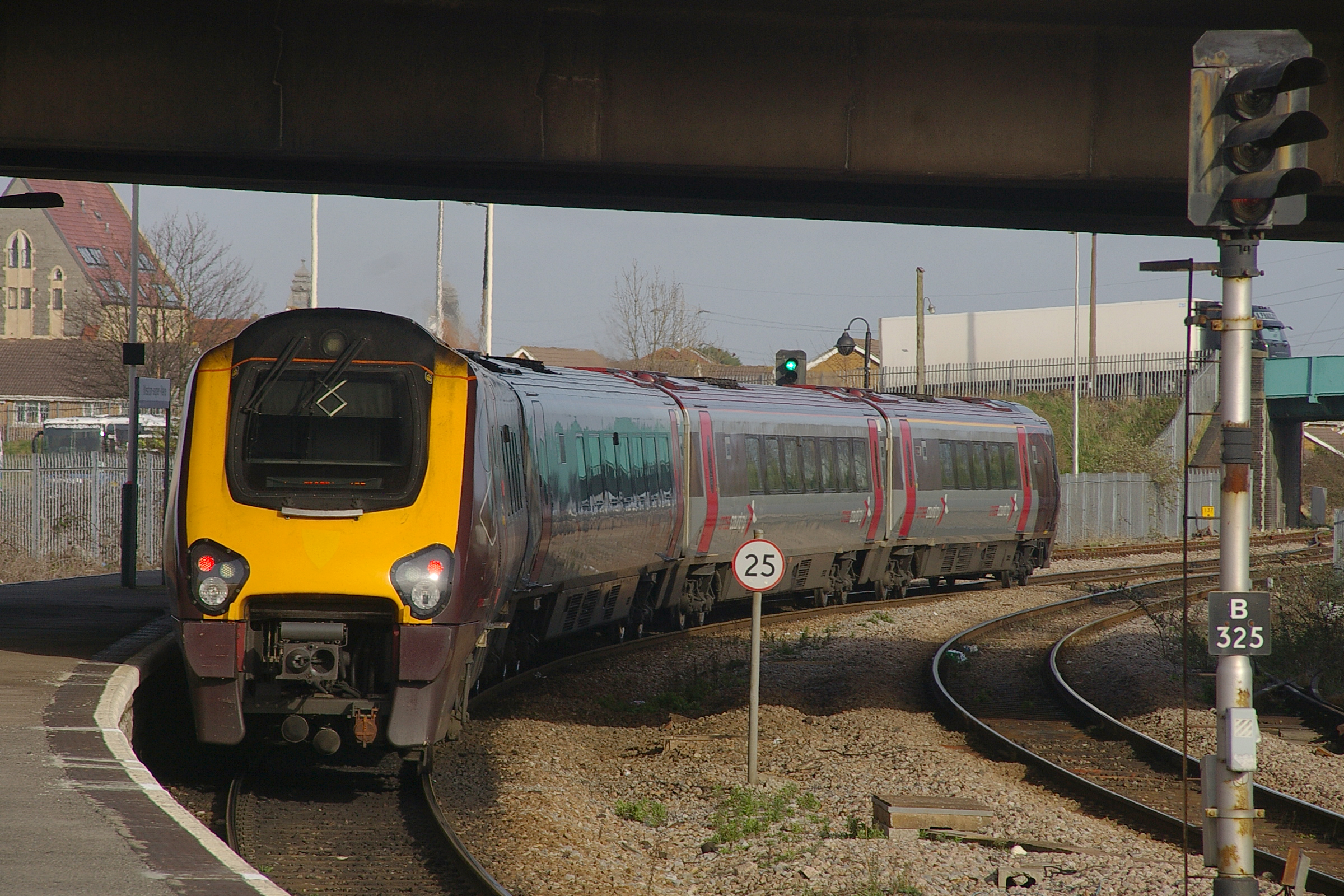 220014 departs Weston-super-Mare railway station, bound for Manchester.